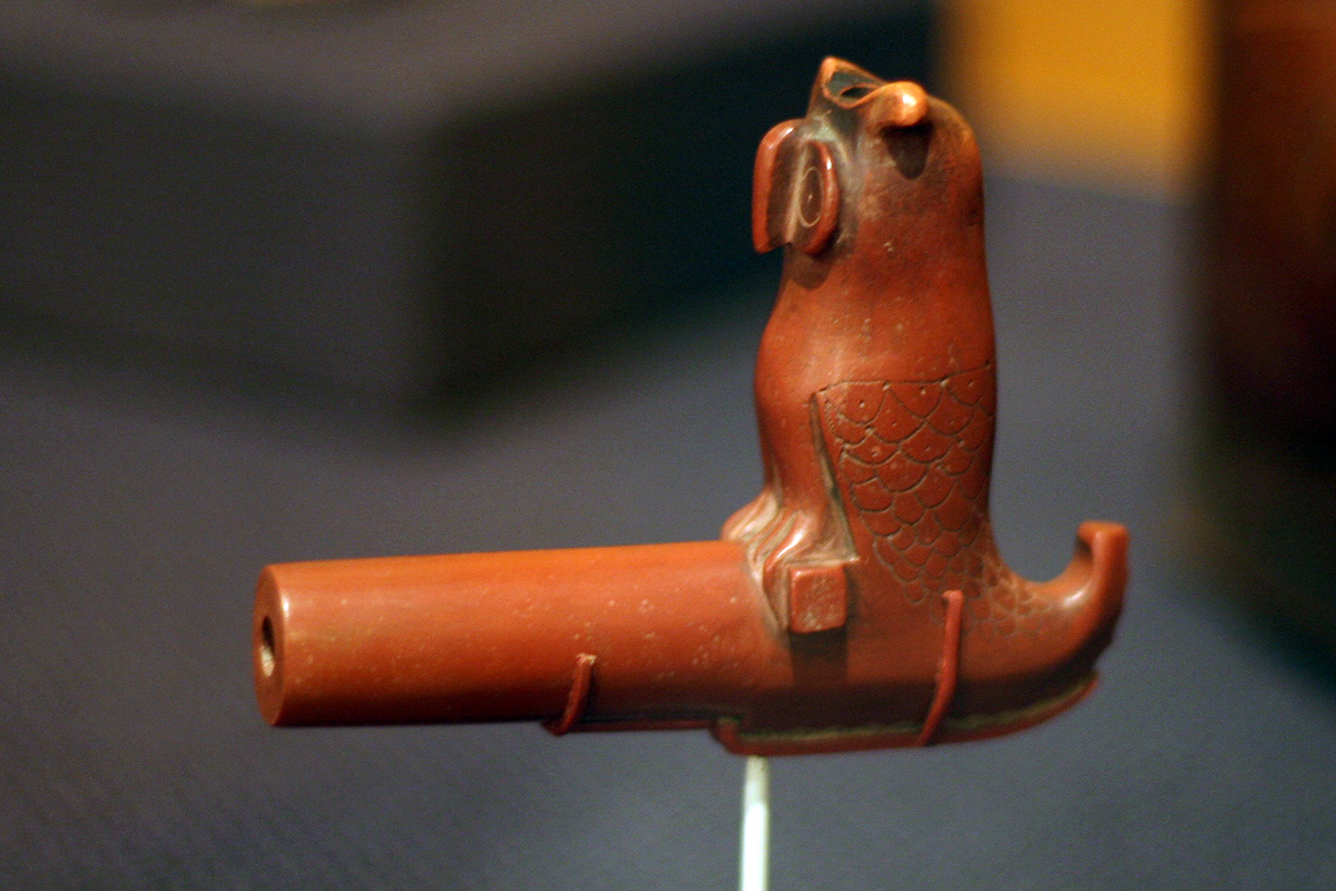 Native American, Plains (unidentified). Pipe Bowl representing Owl, early 20th century. Catlinite or pipestone, 3 3/4 x 5 3/8 in. (9.5 x 13.7 cm). Brooklyn Museum, Gift of Cynthia Hazen Polsky, 80.98.2.